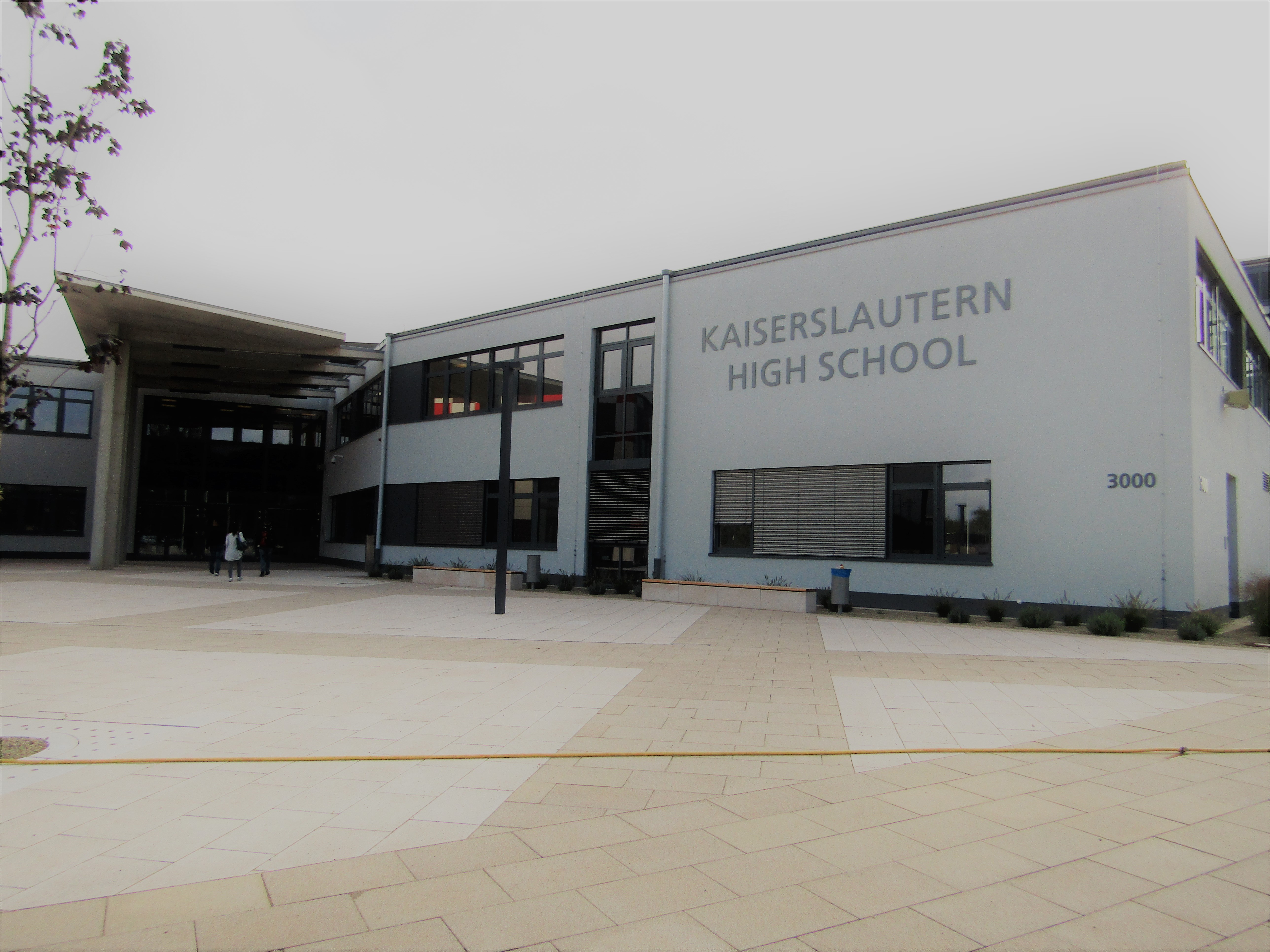 The entrance of Kaiserslautern high school